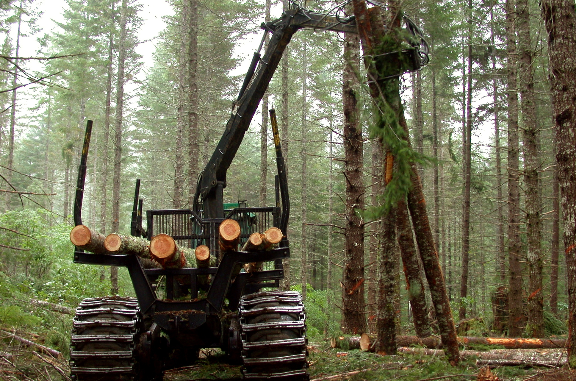 The BLM manages 2.4 million acres of forests and woodlands in western Oregon - which includes 2.2 million acres of commercial forest and 200,000 acres of woodlands. To learn more about Oregon forests, please visit us online at And to to learn more about the BLM's forestry programs and initiatives, visit us at